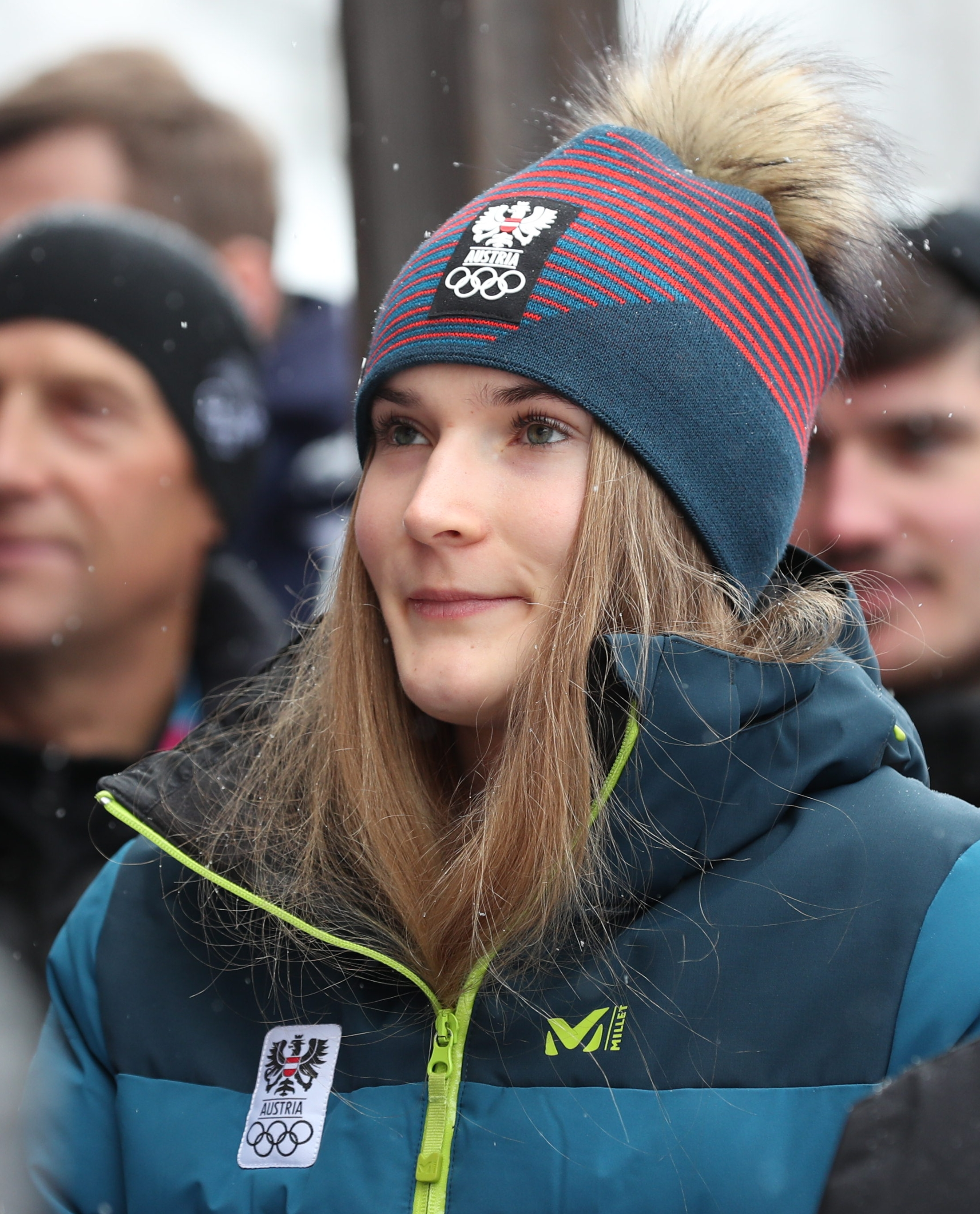 2nd run Luge Men's Single at the 2020 Winter Youth Olympics in Lausanne